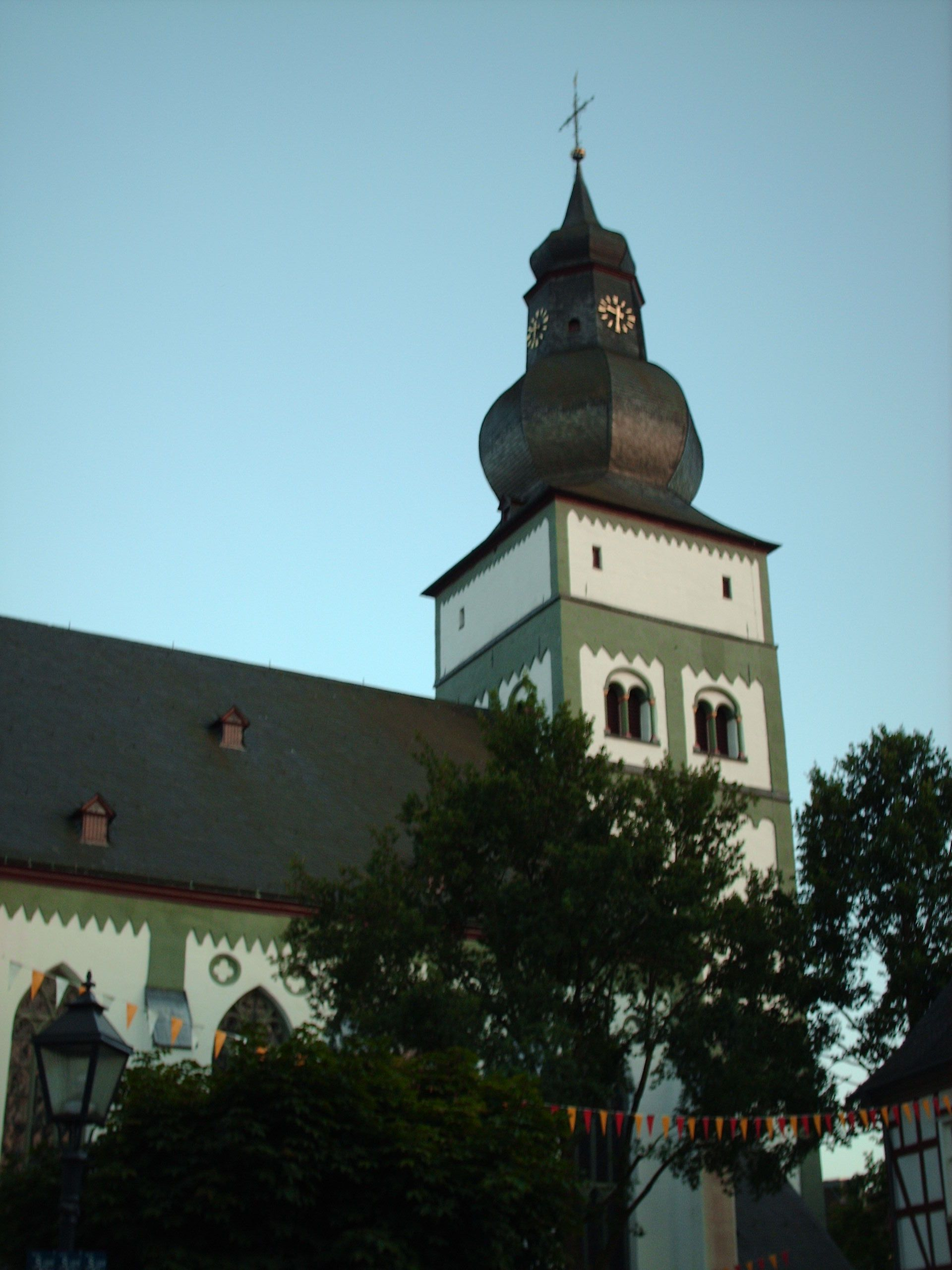 St. Johannes Baptist church, Attendorn, Germany check usage